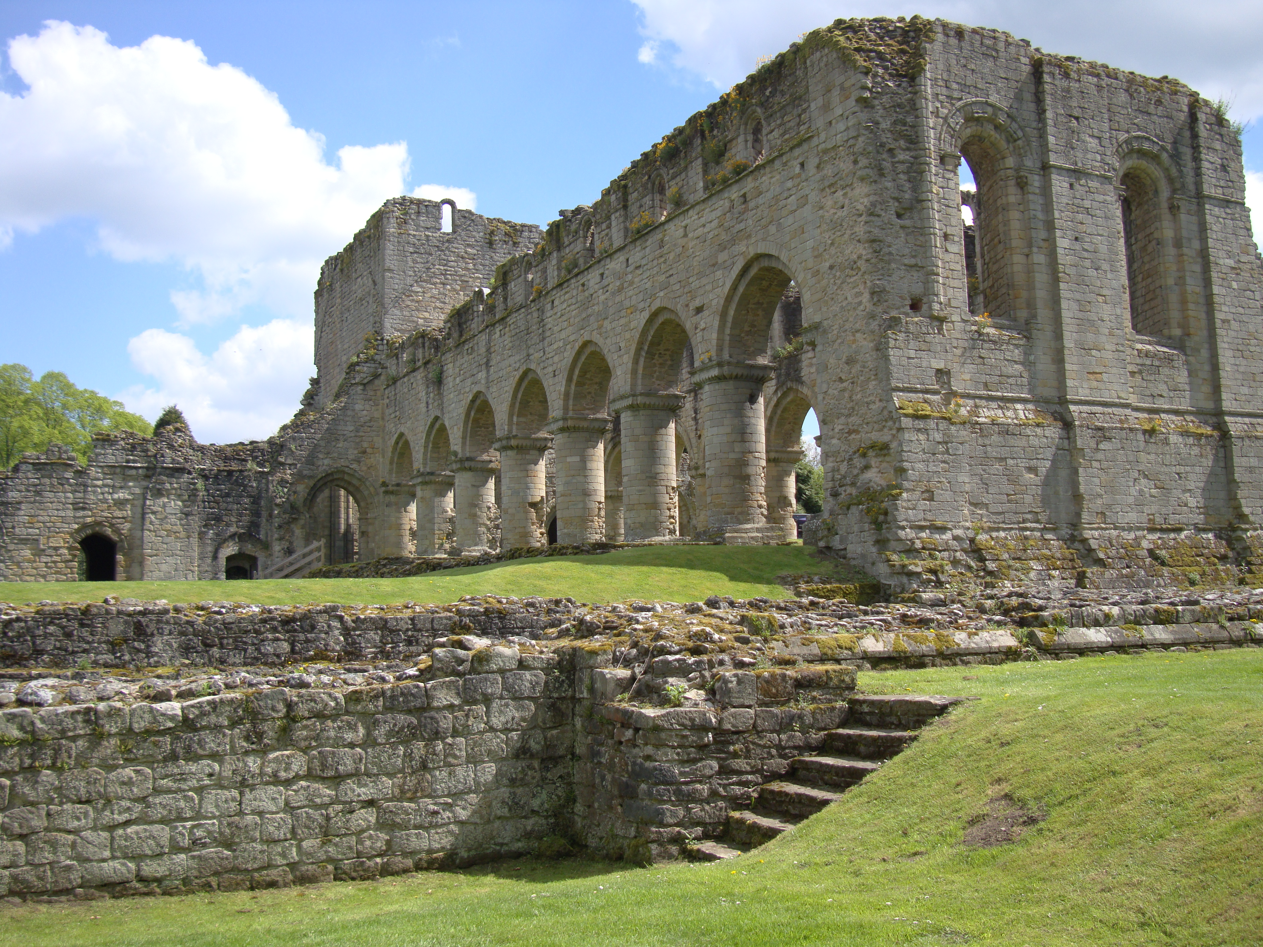 Photograph of Buildwas Abbey, Shropshire, England